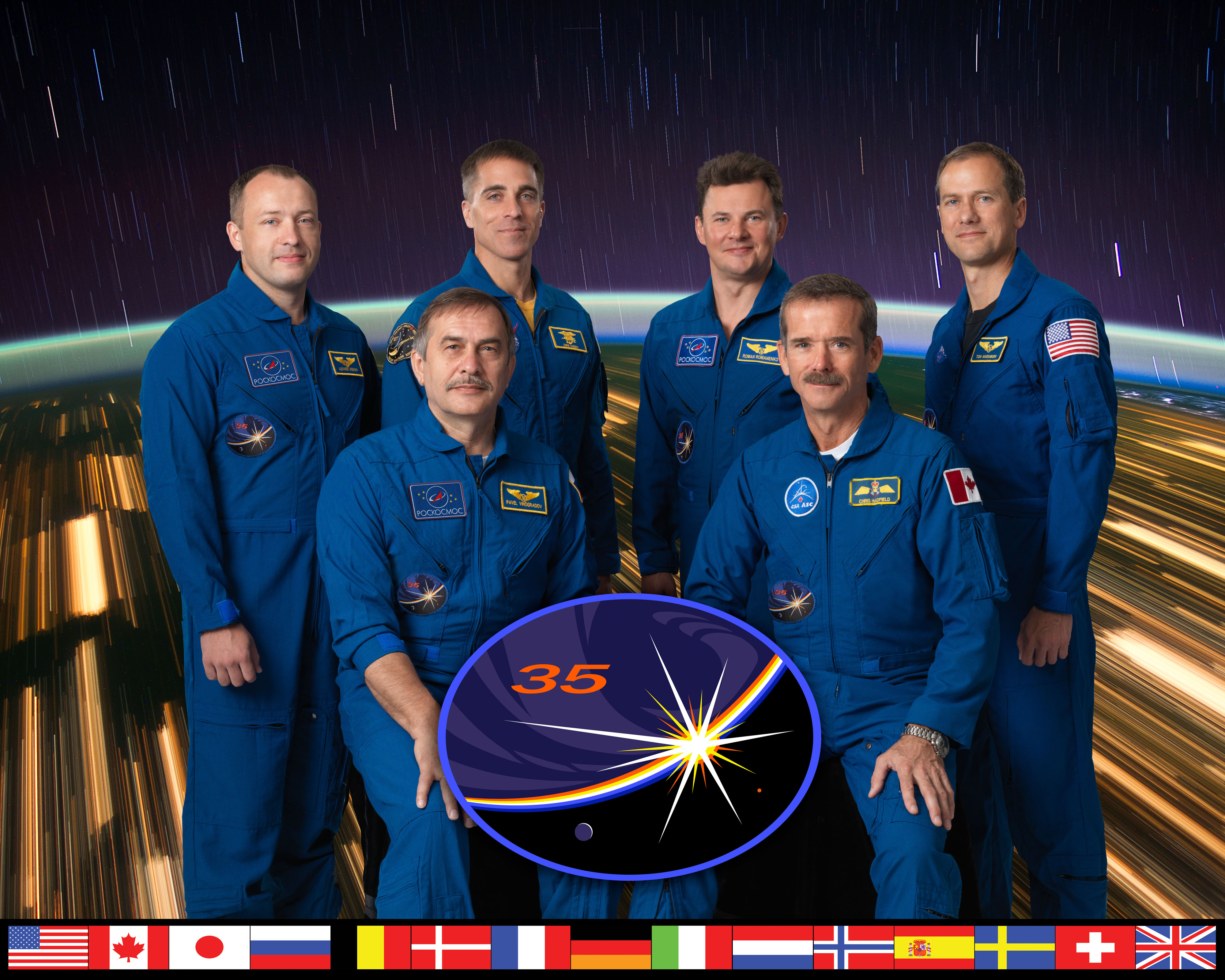 Expedition 35 crew members take a break from training at NASA's Johnson Space Center to pose for a crew portrait. Pictured on the front row are Canadian Space Agency astronaut Chris Hadfield (right), commander; and Russian cosmonaut Pavel Vinogradov, flight engineer. Pictured from the left (back row) are Russian cosmonaut Alexander Misurkin, NASA astronaut Chris Cassidy, Russian cosmonaut Roman Romanenko and NASA astronaut Tom Marshburn, all flight engineers.